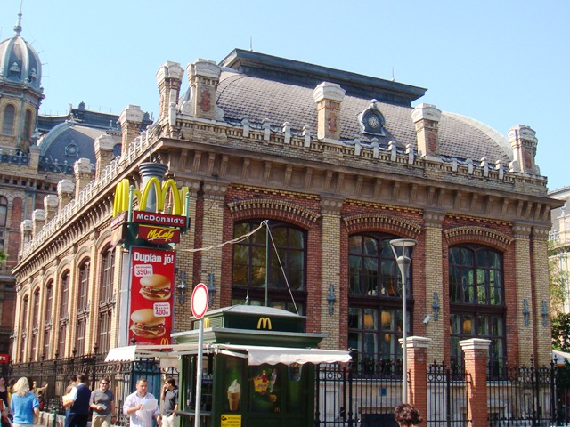 The outside of the McDonald's at the Nyugati pu. (Western Station).